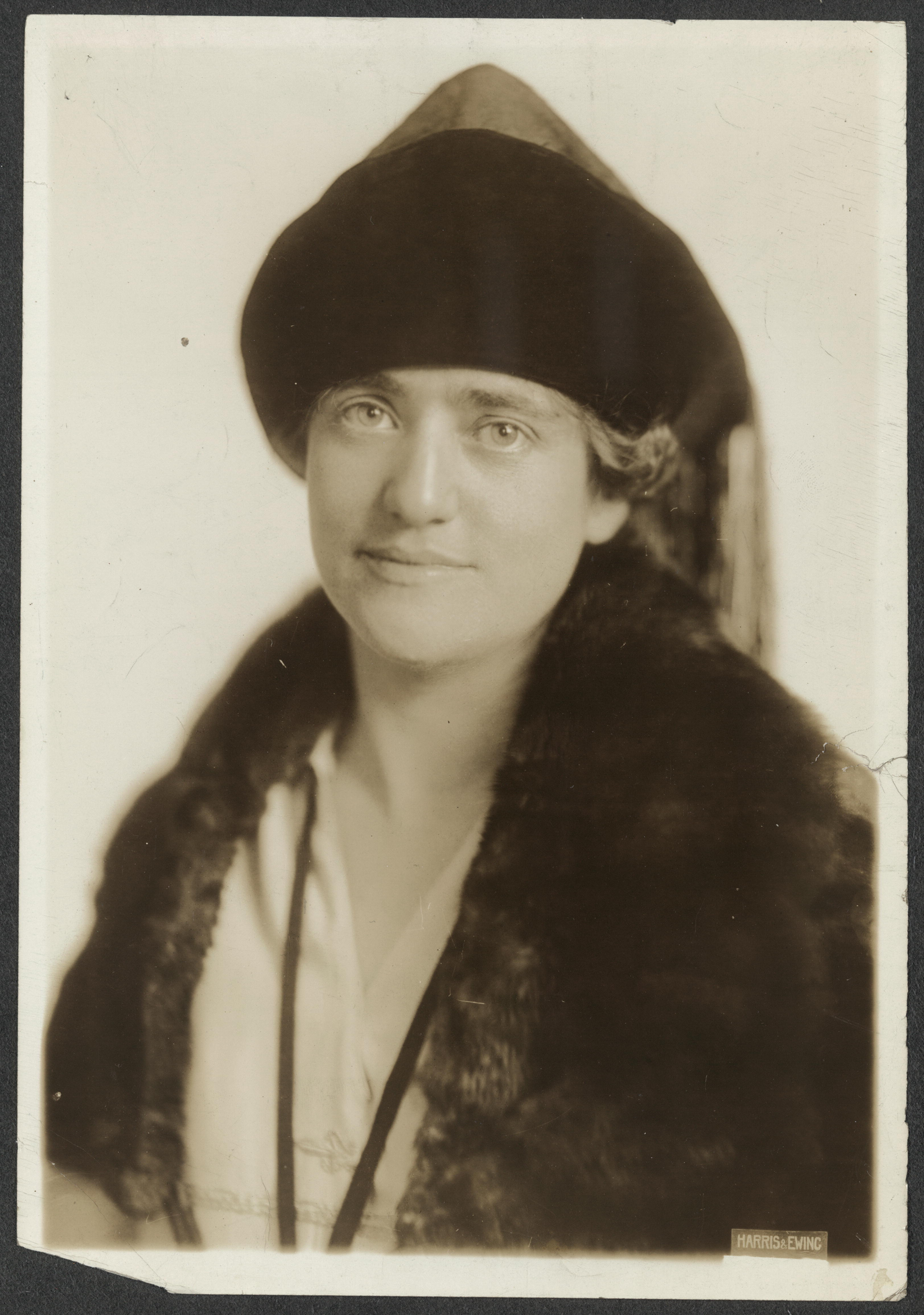 Half-length portrait of Bertha C. Moller, facing forward, wearing fur and velvet hat.